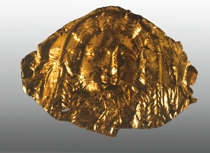 Gold foil oval stamped with female head, one of several found in a late Roman-era burial in Douris, near Baalbek, Lebanon, and apparently attached to the deceased woman's garment.